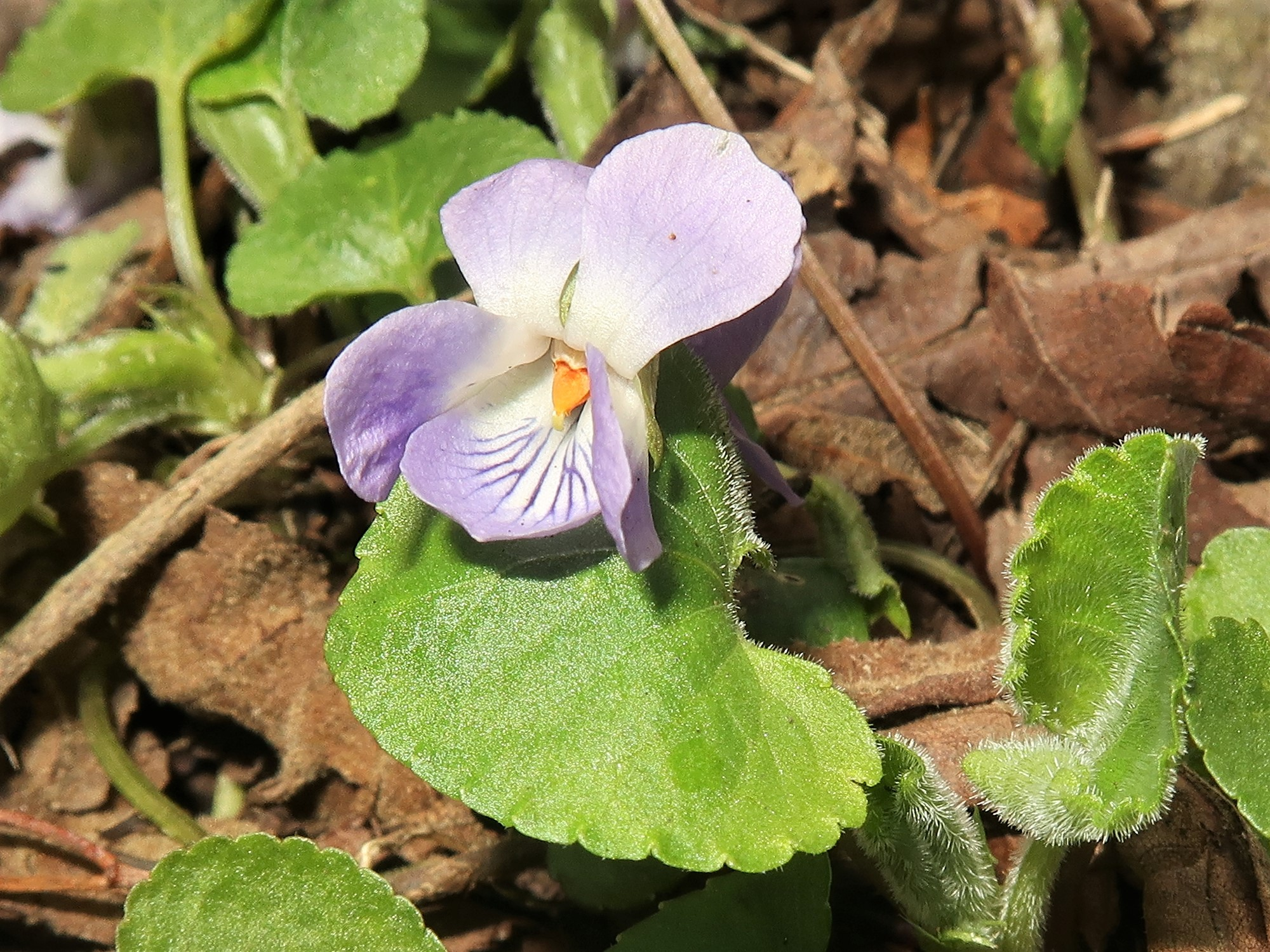 Viola hondoensis, Aizu area, Fukushima pref., Japan